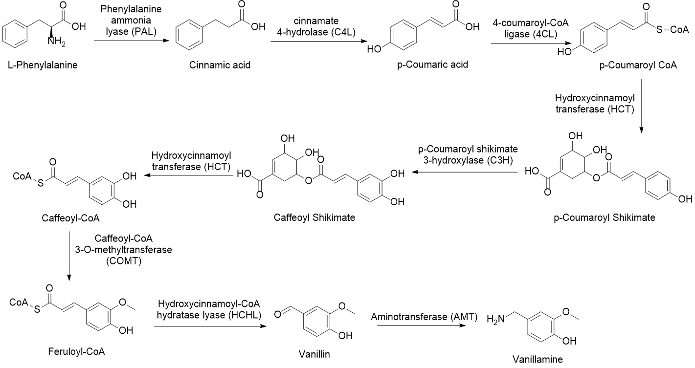 Vanillamine is produced from the phenylpropanoid pathway